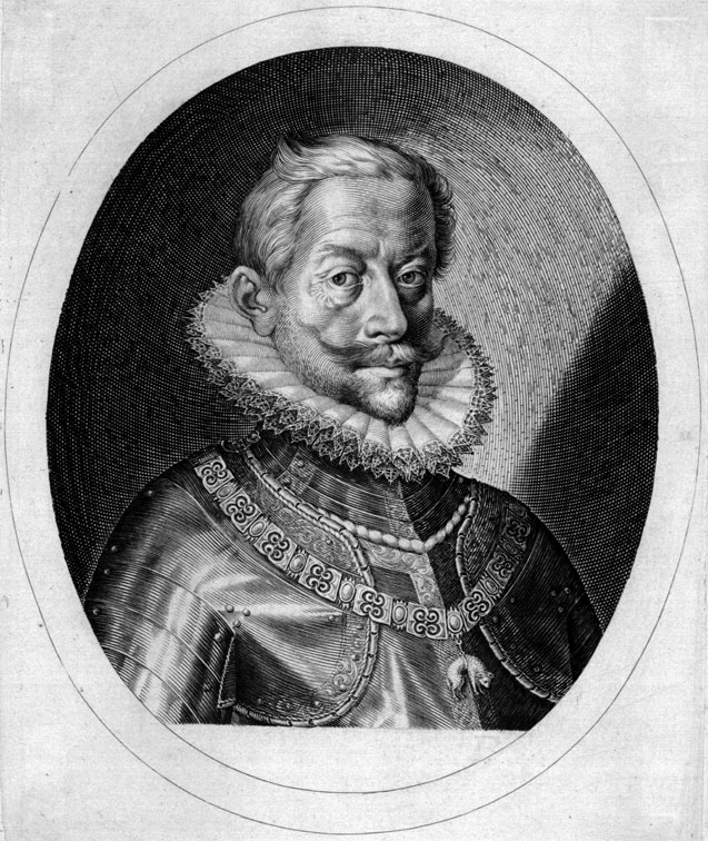 Peter Ernst I von Mansfeld-Vorderort, Count of Mansfeld; engraving